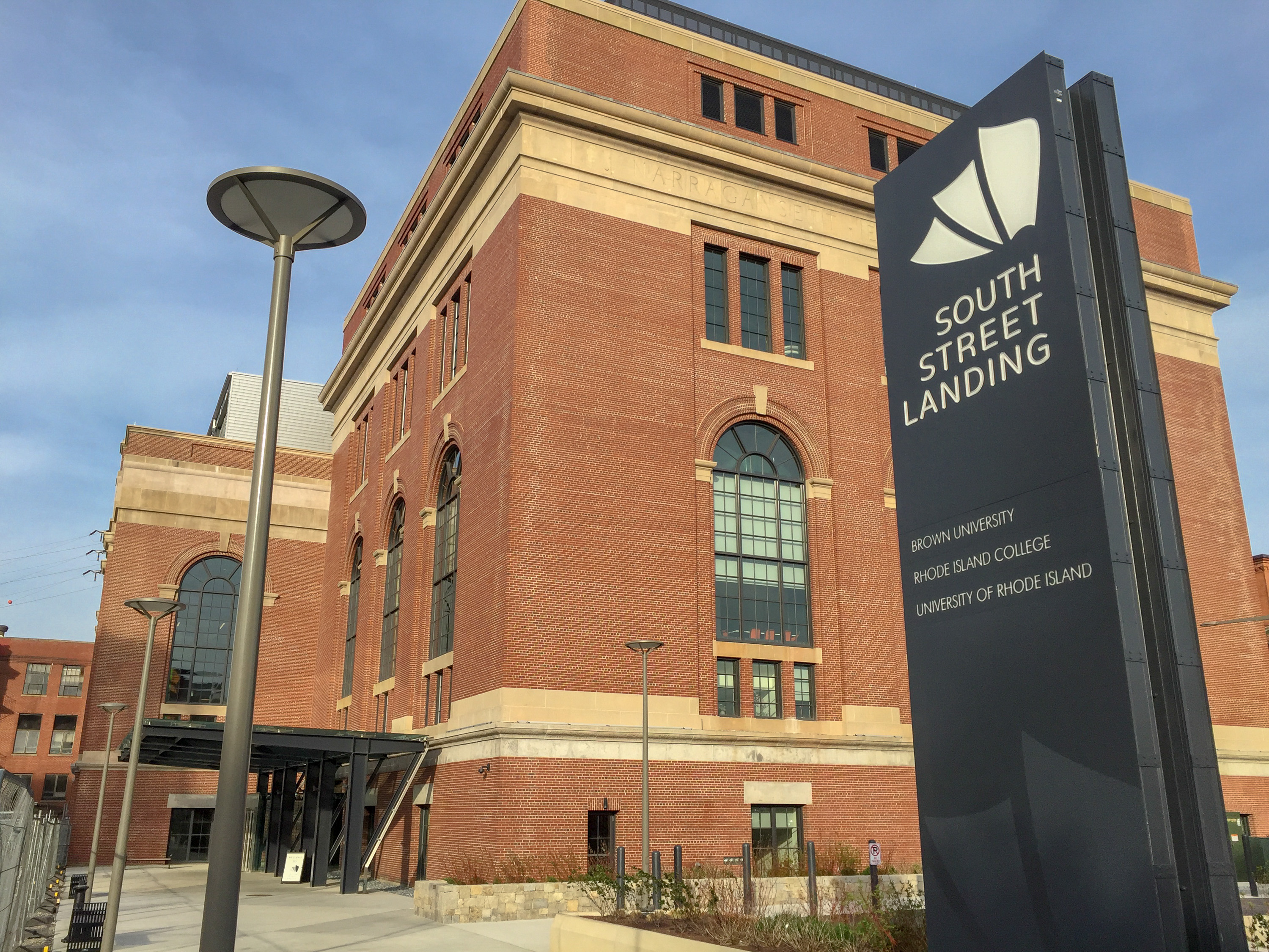 South Street Landing, Providence Rhode Island. Newly opened offices in 2017 for Brown University, Rhode Island College, and University of Rhode Island, located in the "Jewelry District". Just over the Point Street Bridge. Formerly a power station.